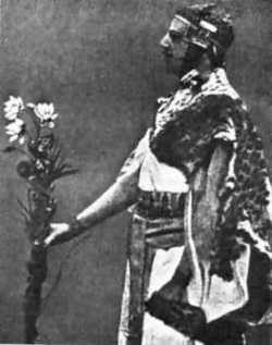 Samuel Liddell MacGregor Mathers, in Egyptian getup, performs a ritual in the Hermetic Order of the Golden Dawn. Picture from before en:1918 scanned from Aleister Crowley autobiography.